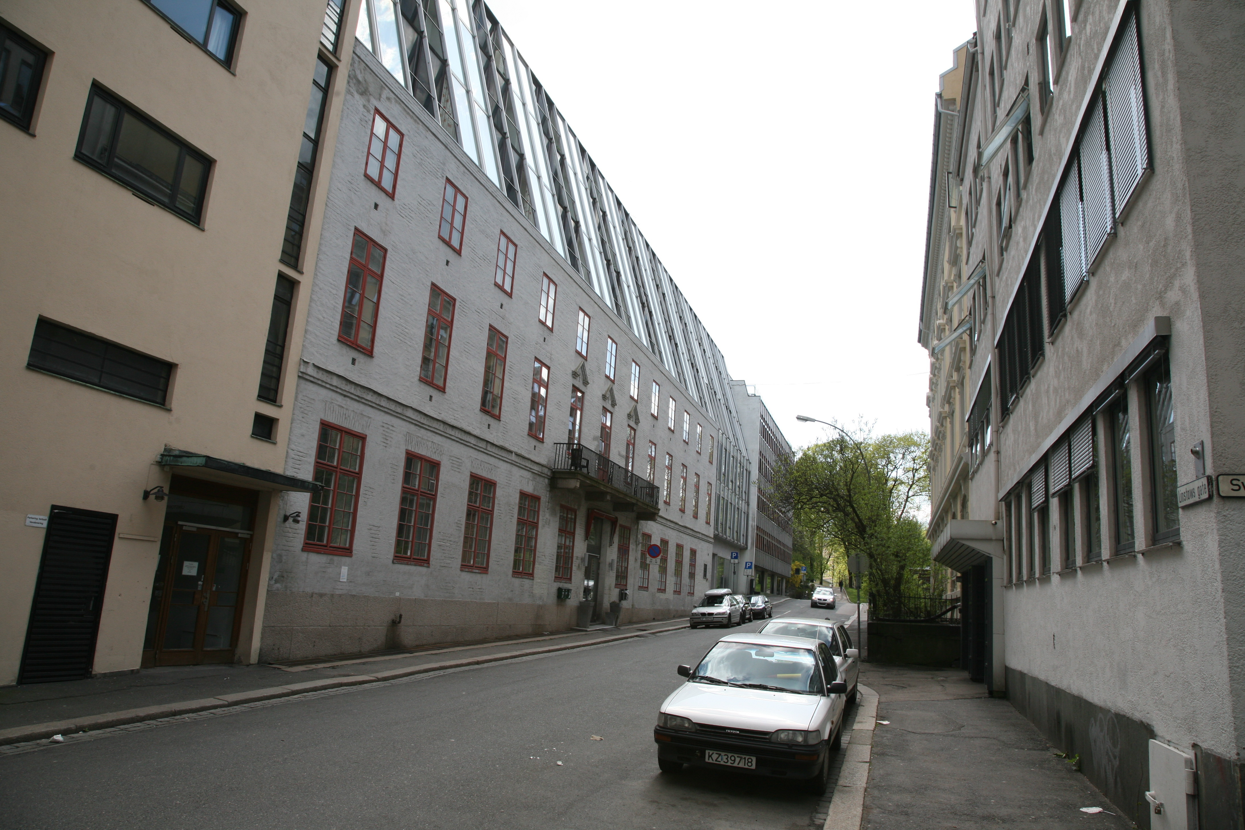 Linstows gate in Oslo